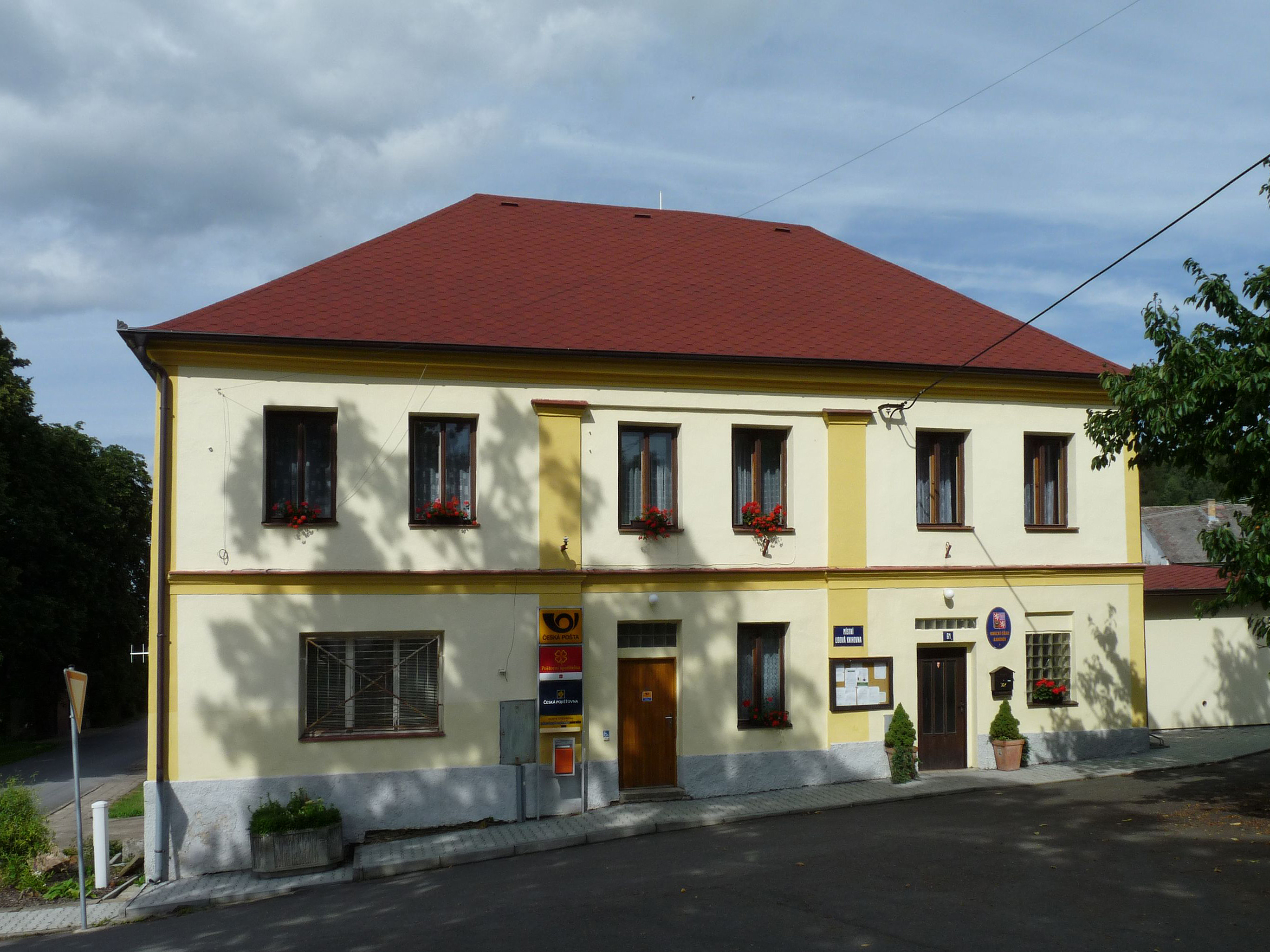 Municipal office building in the village of Radenín, Tábor District, Czech Republic.